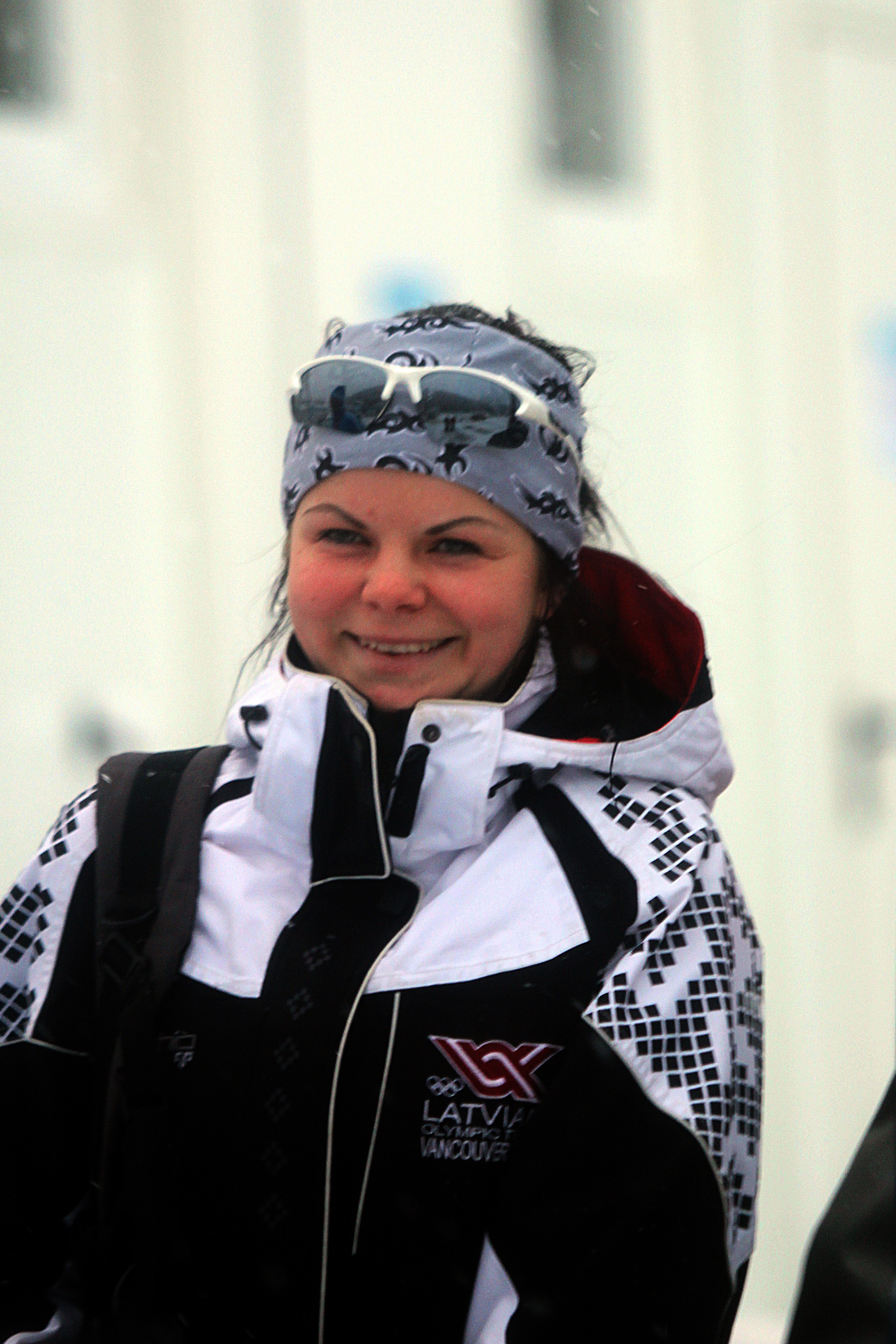 Anete Brice at Biathlon Hochfilzen 2011